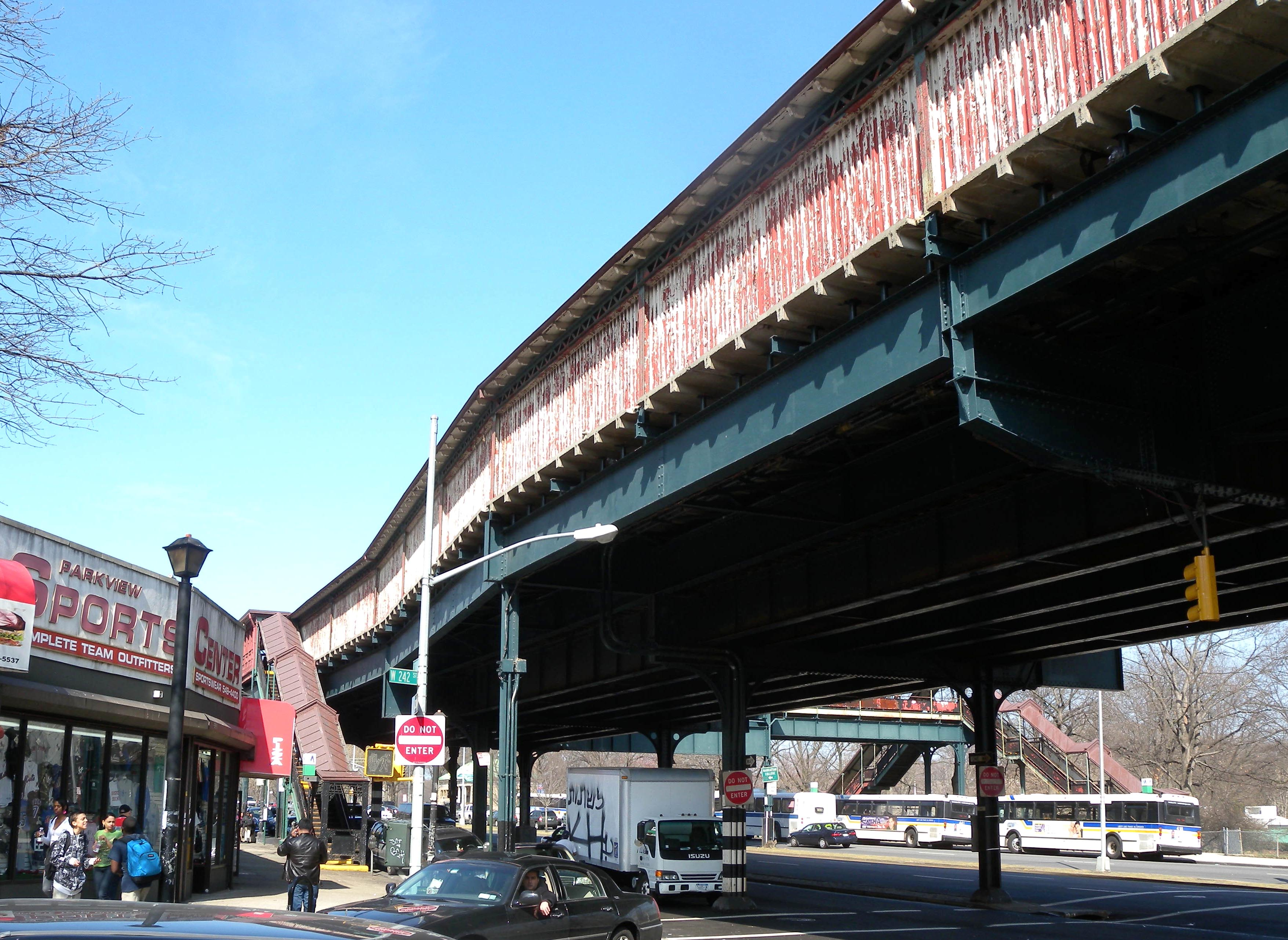 Looking northeast at southwestern stair of Van Cortlandt Park–242nd Street (IRT Broadway–Seventh Avenue Line) on a sunny midday.